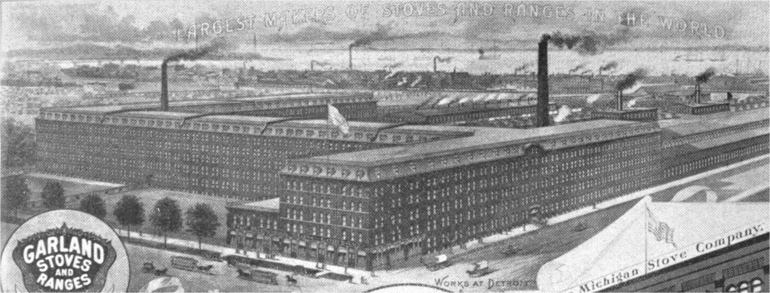 Michigan Stove Company foundry in Detroit, Michigan, circa 1890